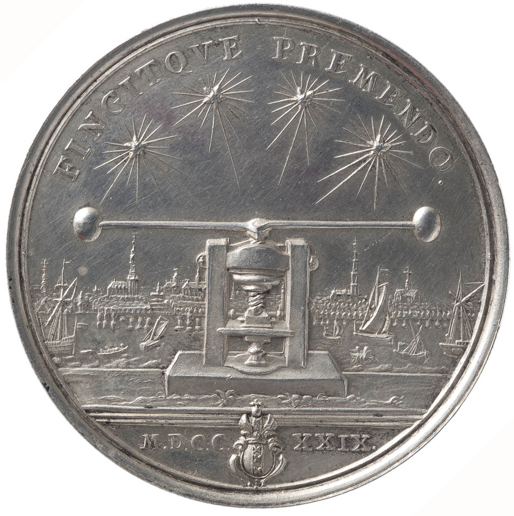 Martinus Holtzhey, 1729. Collection Teylers Museum, Haarlem, the Netherlands.